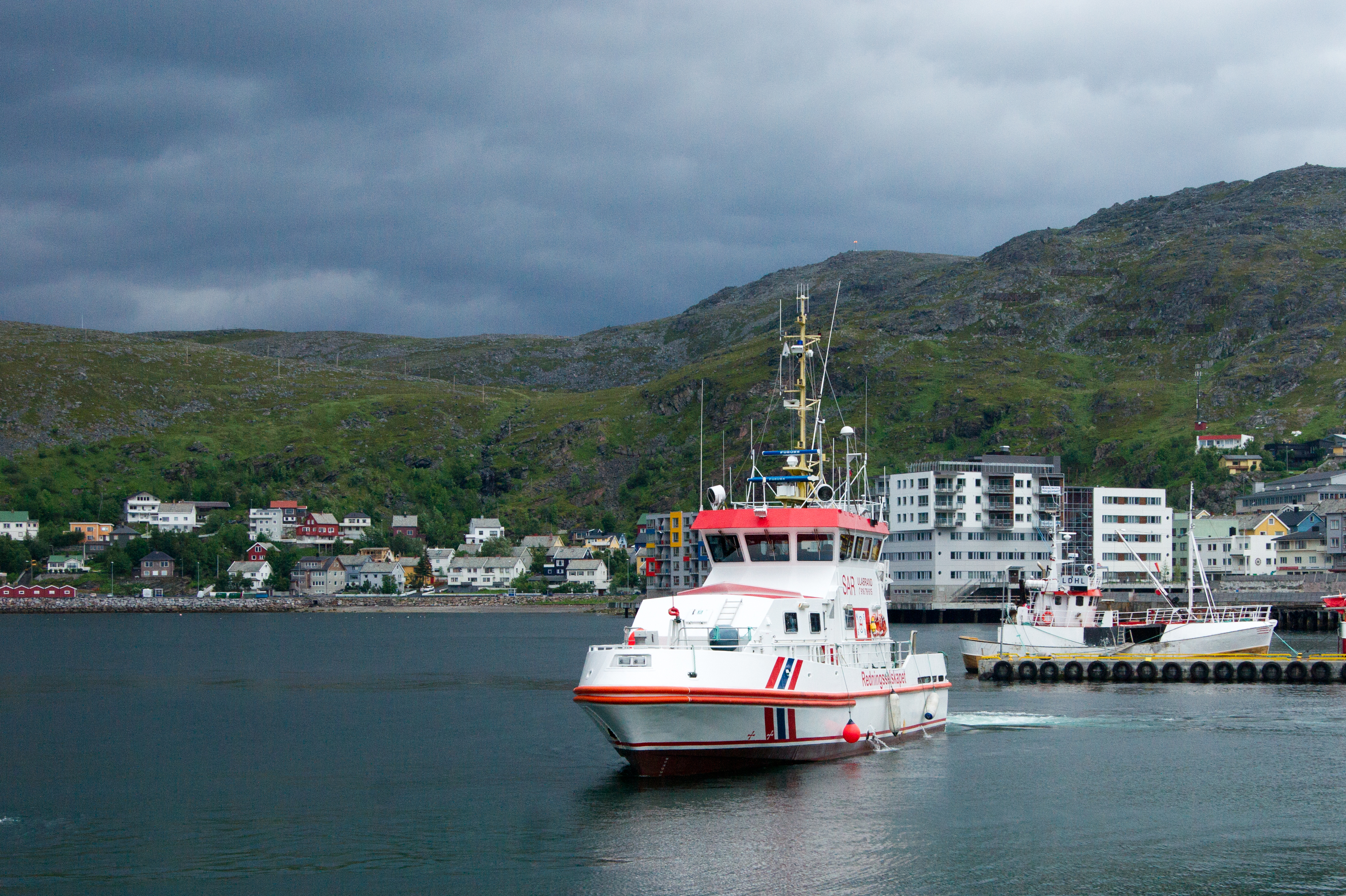 Search and Rescue vessel Ulabrand from the Redningsselskapet, Hammerfest, Norway.